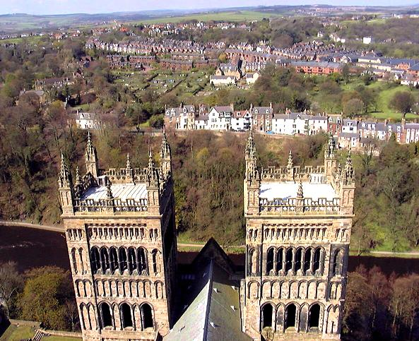 } Template:Photograph by Robin Widdison